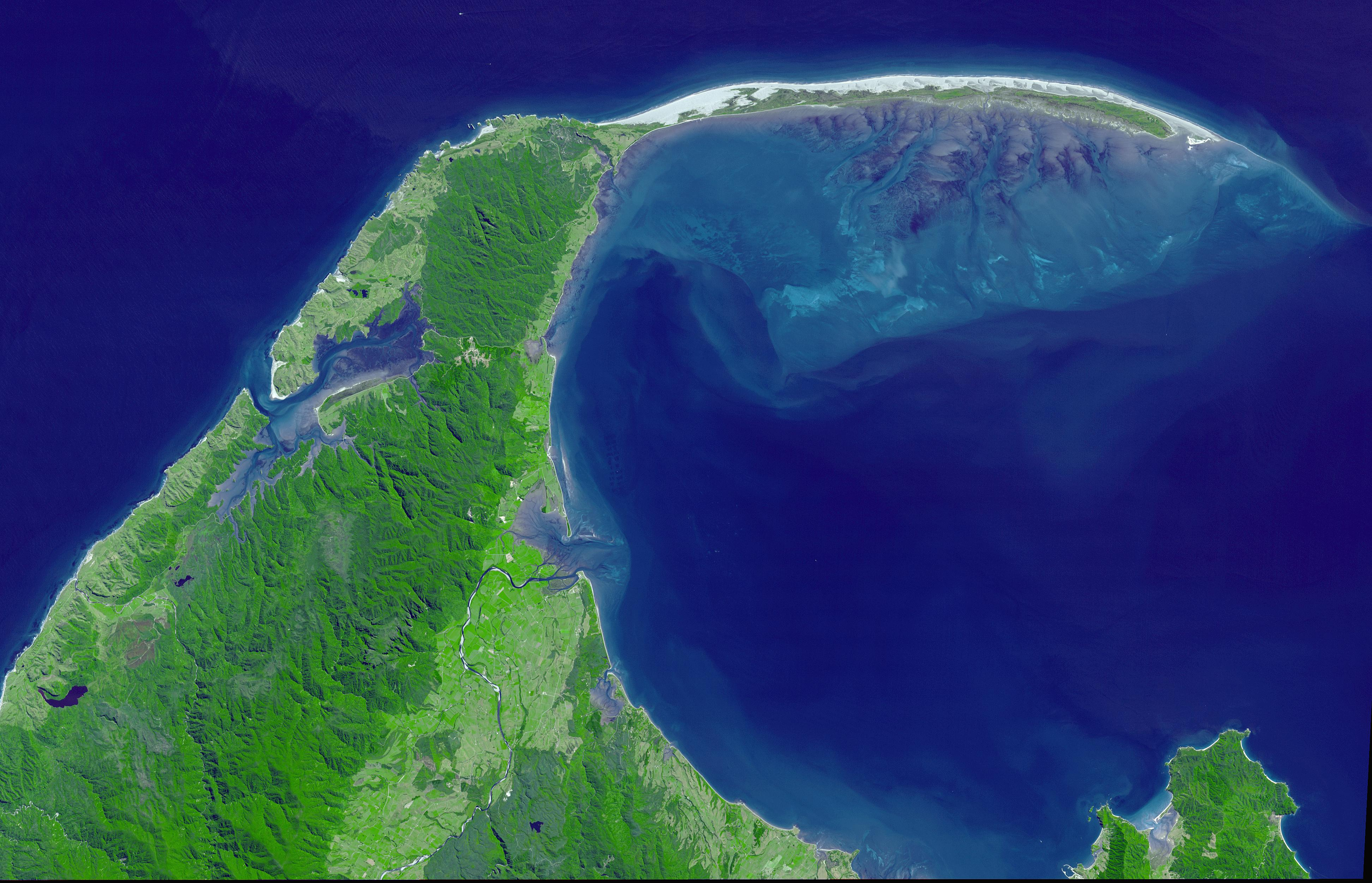 A cloud-free view of Farewell Spit, on the northern tip of New Zealand’s South Island.